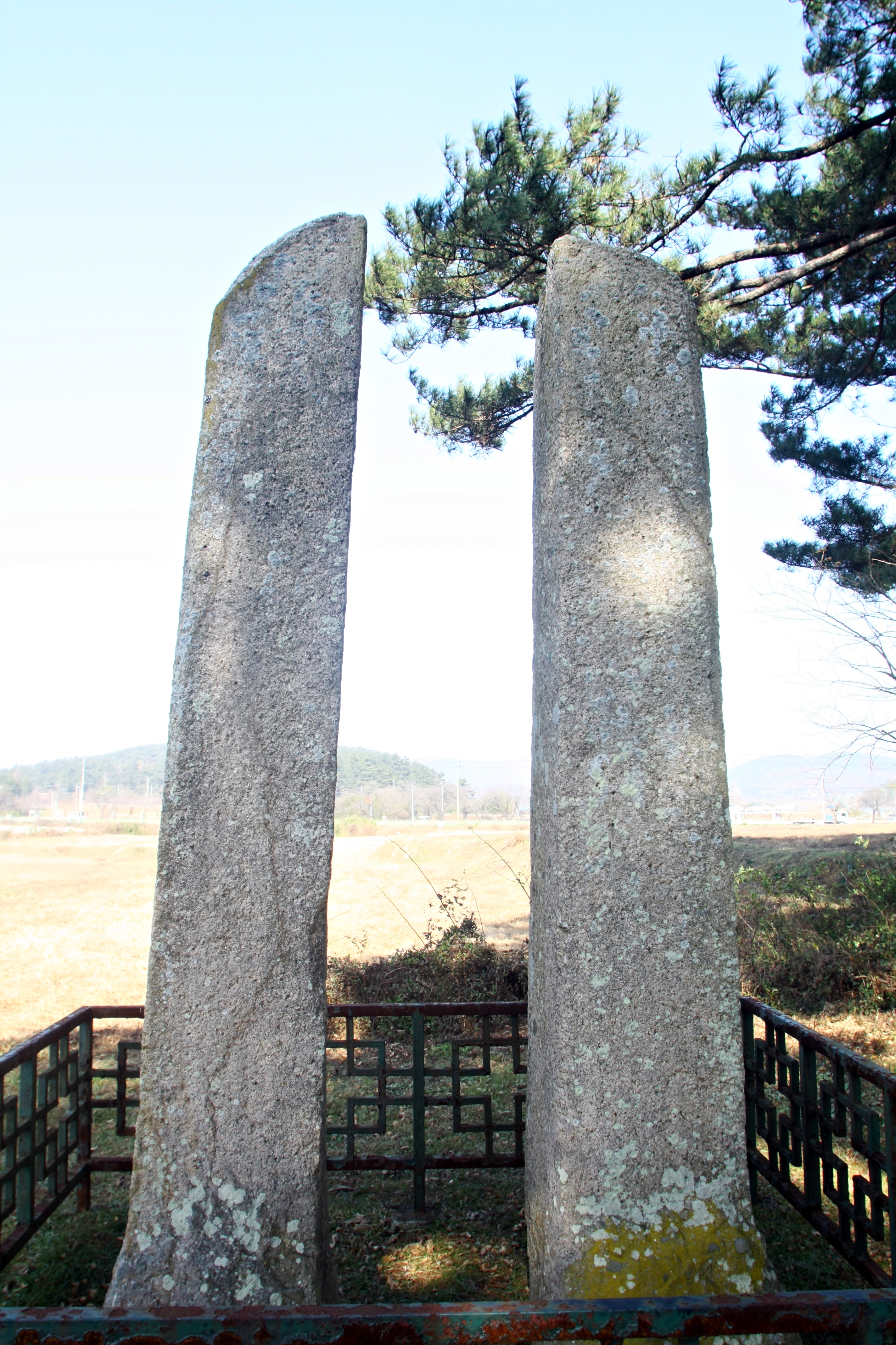 Dangganjiju at Mangdeoksa Temple Site in Gyeongju, South Korea